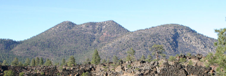 O'Leary Peak (center) from Bonito Lava Flow. Oct. 2008. Jim Stuby (talk) 02:55, 1 November 2008 (UTC)